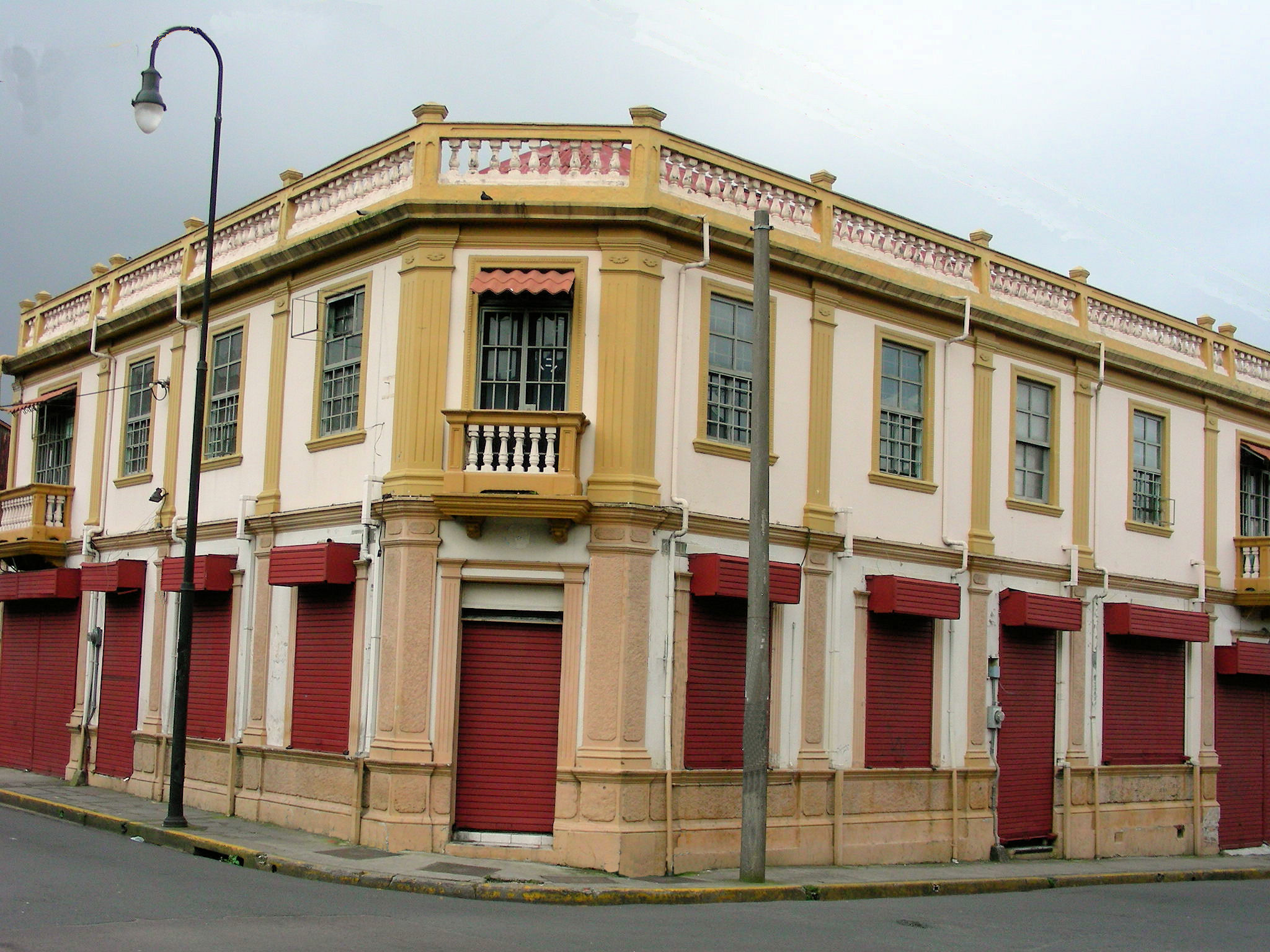 Corner where General José Joaquín Tinoco Granados was assassinated on August 10, 1919. 3rd. street, 7th. Avenue, San José, Costa Rica.